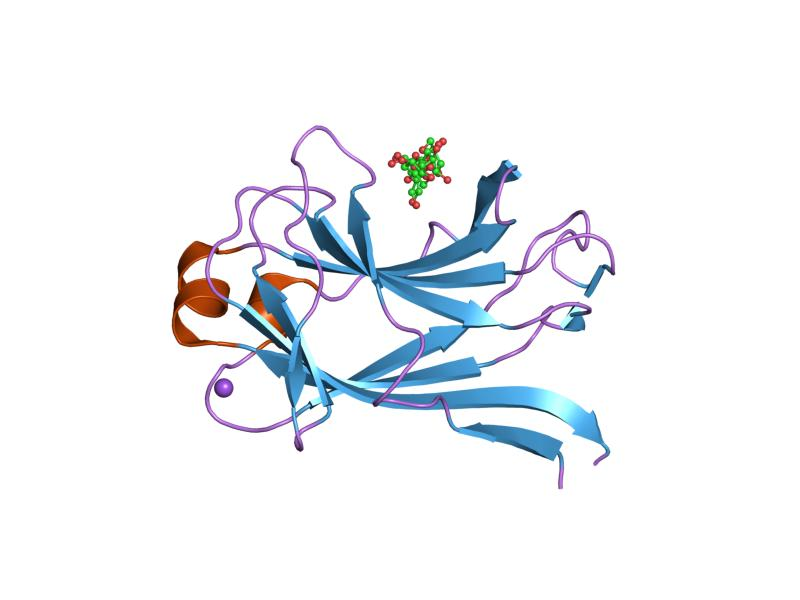 Cartoon representation of the molecular structure of protein registered with 1gny code.